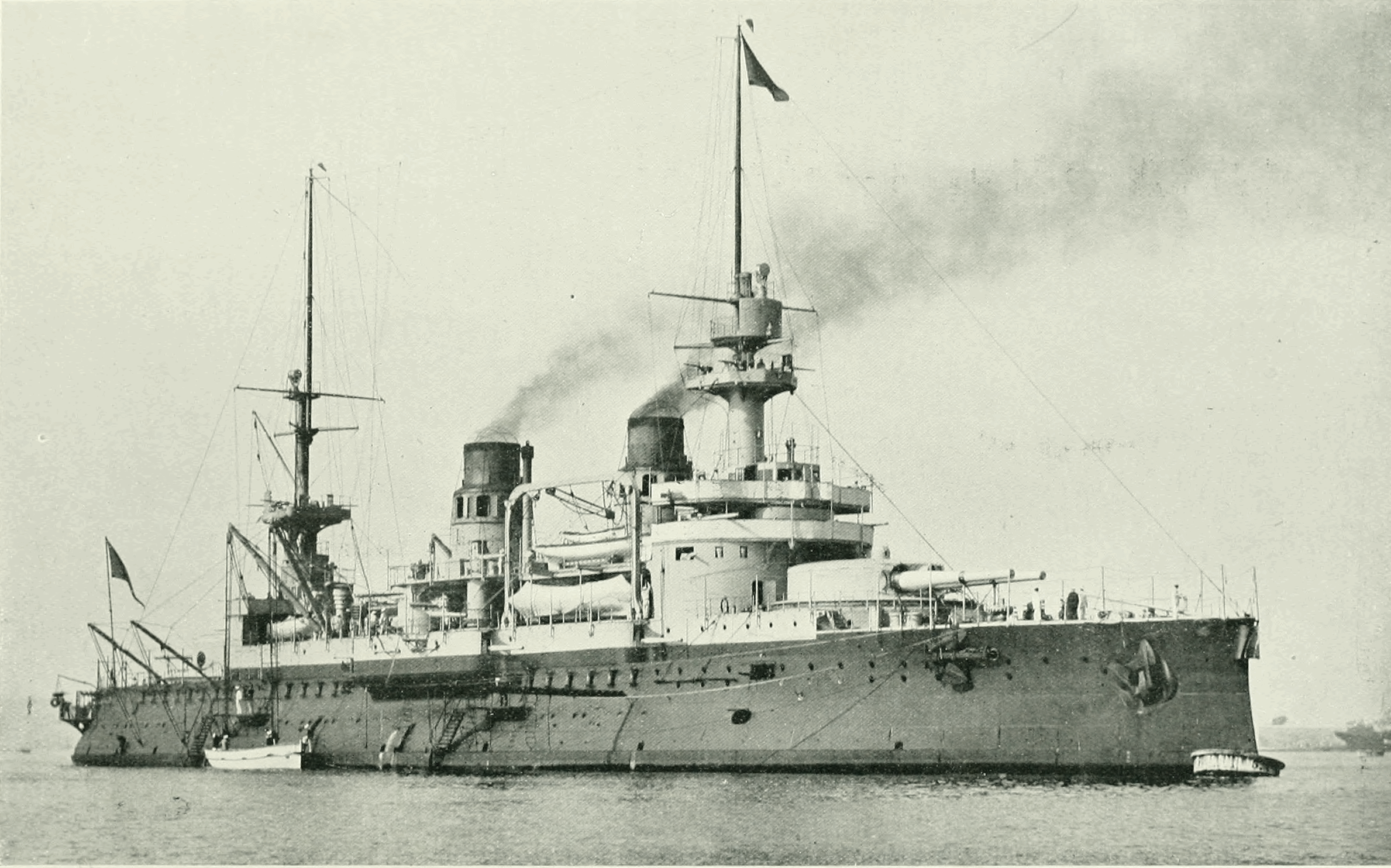 Photo of the French battleship Saint-Louis. From Page's Magazine No. 3, September 1902, page 256, stored at .